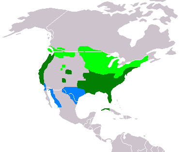 Distribution of Aix sponsa Light Green - nesting area Blue - wintering area Dark Green - resident all year